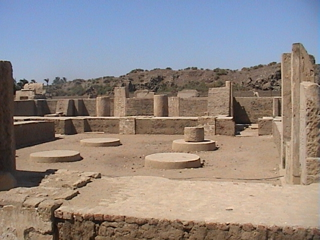 Palace of Ramses III at Medinet Habu - View of the courtroom from the hall of the palace